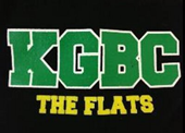 Kgbc smaller logo